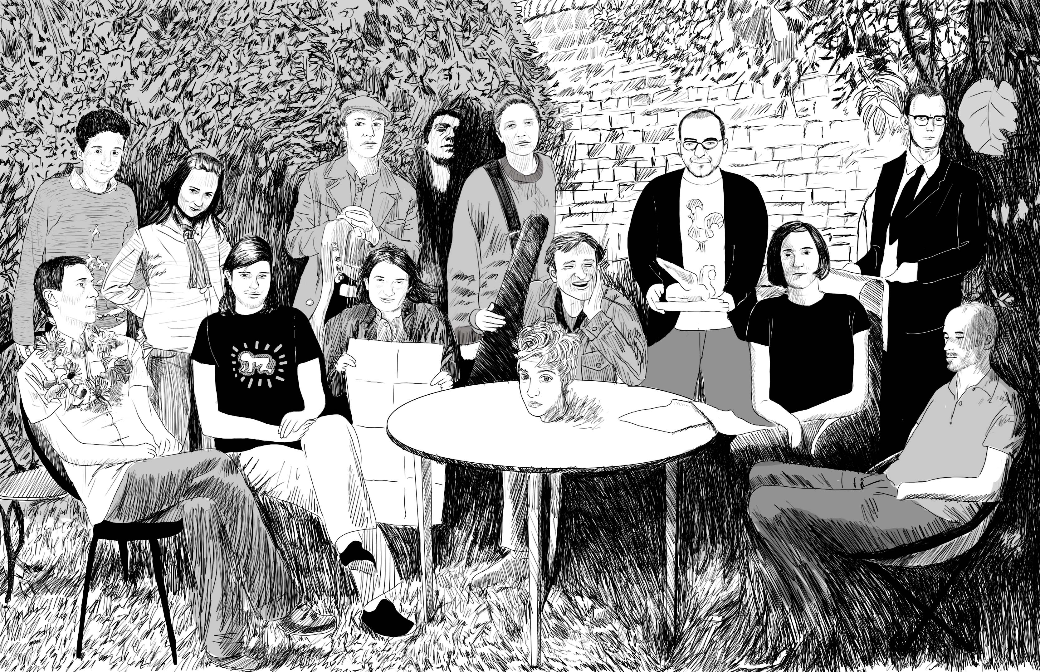 Illustration of all band members of Mujeres Encinta, made by José Manuel Hortelano-Pi, based on the photo/collage of the OuLiPo made by Robert Massin in 1975.